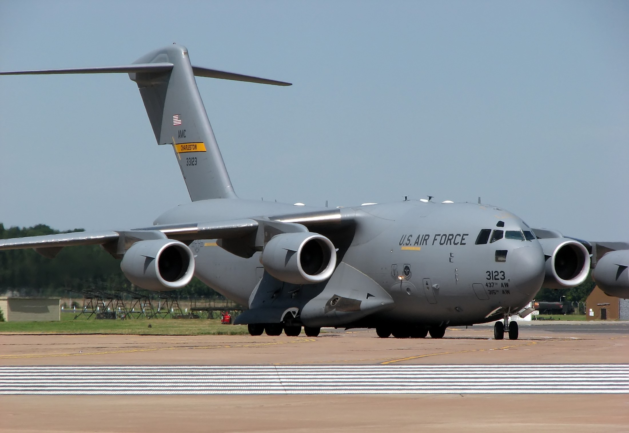 Boeing C-17A Globemaster III (code 03-3123) taxying to the take off point at the Royal International Air Tattoo, RAF Fairford, Gloucestershire, England. Photographed by Adrian Pingstone on July 17th 2006 and released to the public domain.